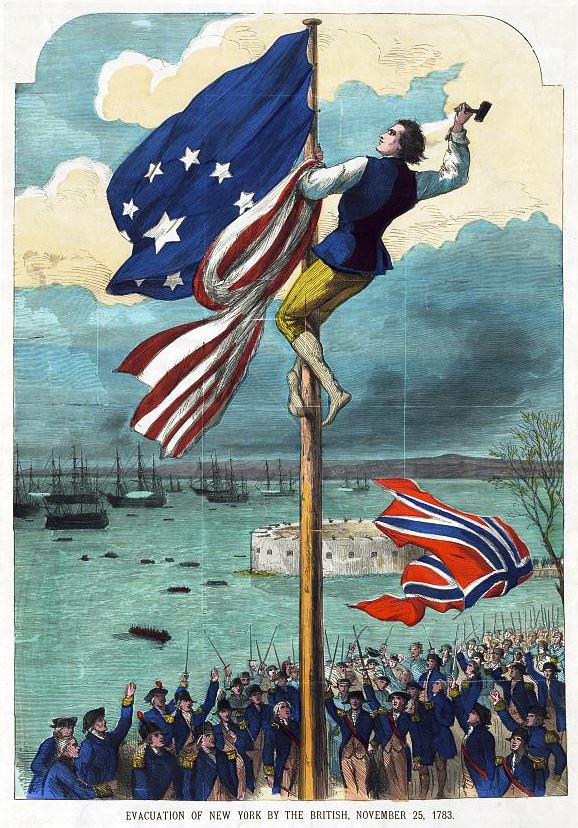 Title: Evacuation of New York by the British, November 25, 1783 Date Created/Published: New York : Issued at the office of Pictorial War Record, 12 Chambers Street, c1883 November 30. Medium: 1 print : wood engraving, hand-colored. Summary: Print showing a man on a flagpole replacing the British flag with an American flag as the British fleet departs New York Harbor. Includes lengthy descriptive text. Reproduction Number: LC-DIG-pga-03446 (digital file from original print) LC-DIG-pga-04026 (digital file from original print, another impression) LC-USZC4-1306 (color film copy transparency of another impression) LC-USZ62-679 (b&w film copy neg.) Rights Advisory: No known restrictions on publication. Call Number: PGA - Pictorial War Record--Evacuation of New York ... (D size) [P&P] PGA - Pictorial War Record--Evacuation of New York ... Another impression. Repository: Library of Congress Prints and Photographs Division Washington, D.C. 20540 USA Notes: Title from item. Library has two impressions. Subjects: Arrivals & departures--British--New York (State)--New York--1780-1790. Flags--American--1780-1790. Evacuation Day, New York, N.Y., 1783. United States--History--Revolution, 1775-1783. Format: Wood engravings--Hand-colored--1880-1890. Collections: Popular Graphic Arts